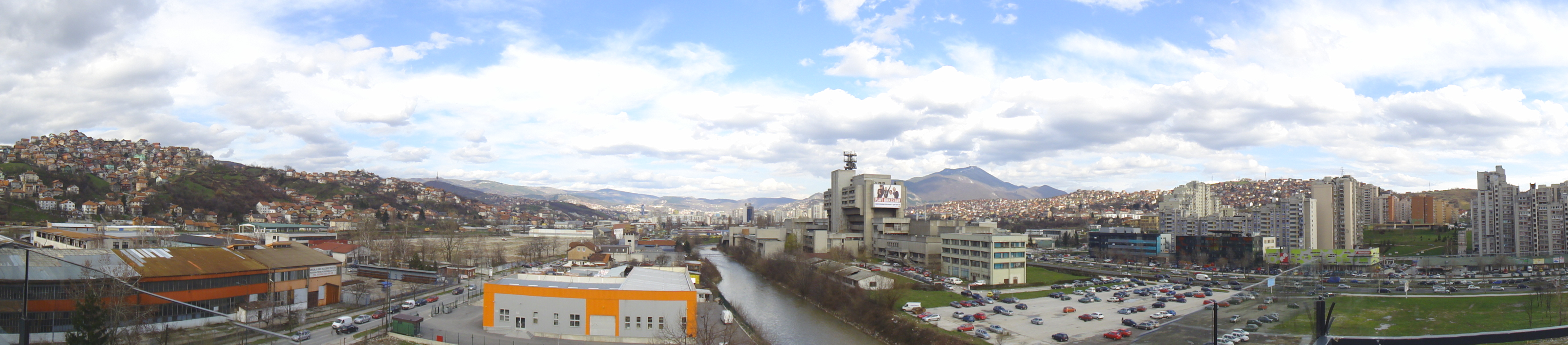 Panoramic view taken from roof terrace of Hotel Sarajevo in April 2013